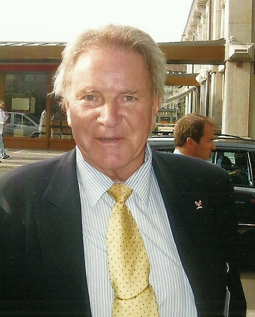 Denis Oswald in Lausanne, Switzerland